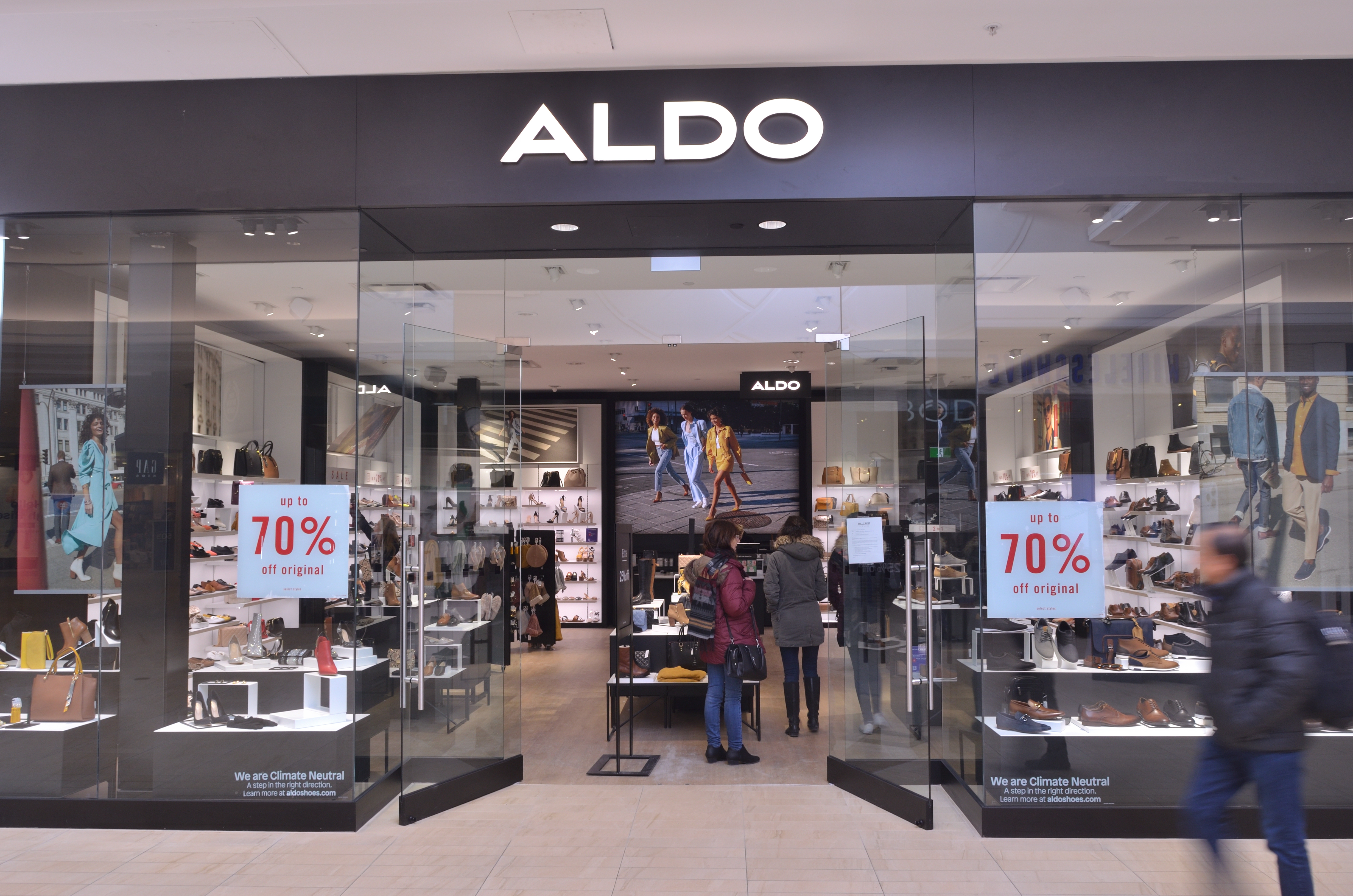 ALDO at Hillcrest Mall